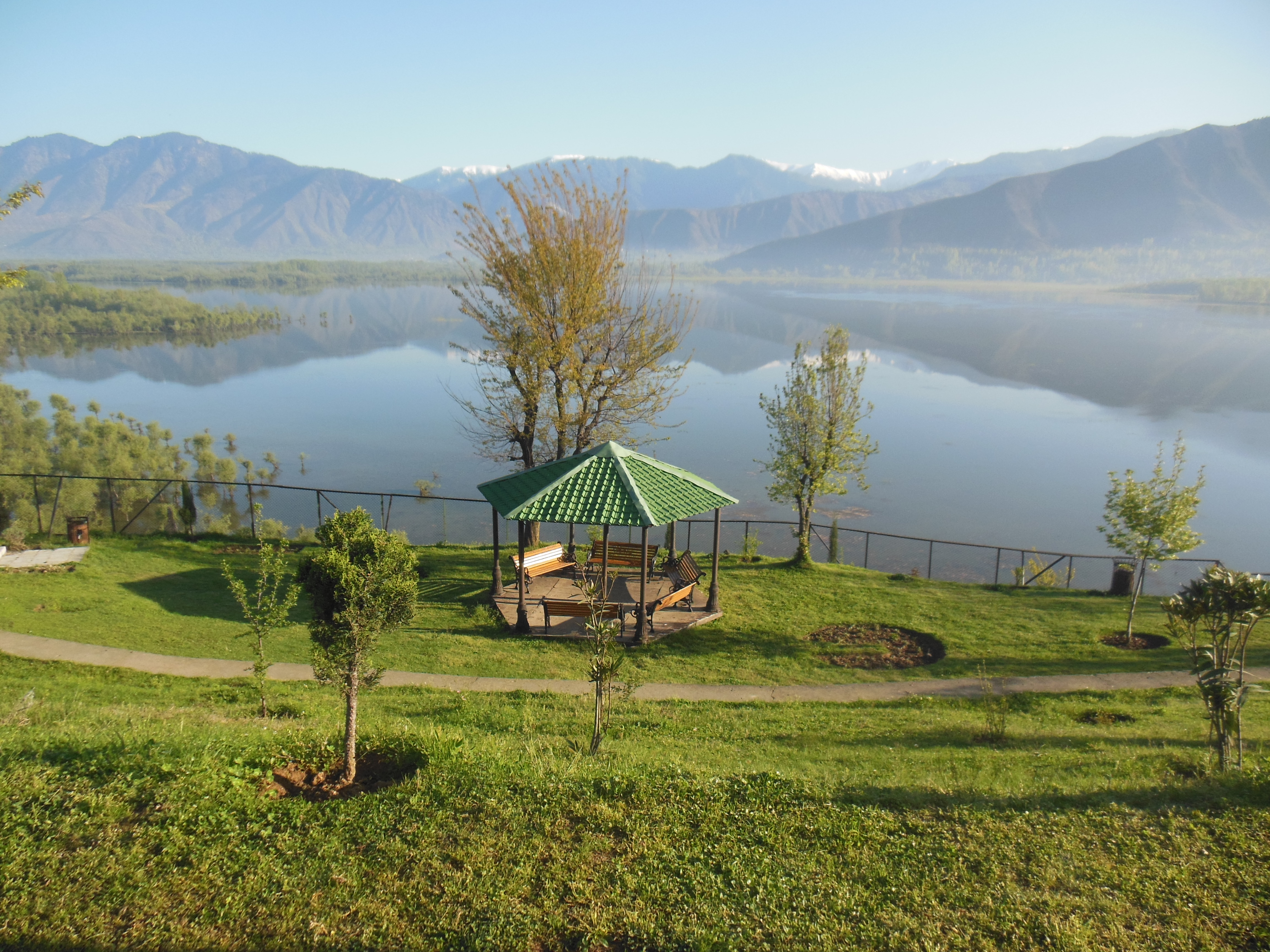 Scenic View of Wular Lake, Jammu and Kashmir, largest freshwater lake of India